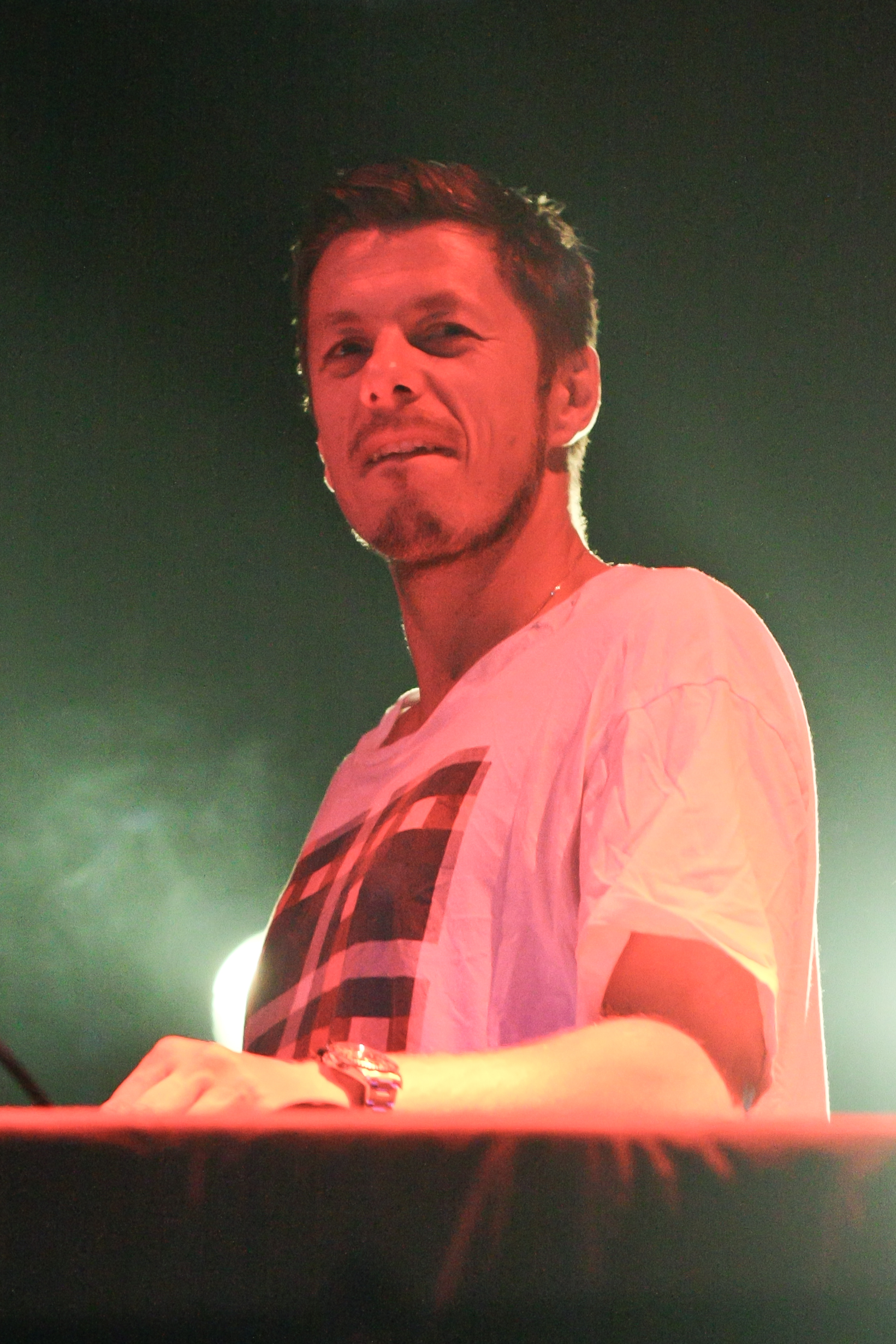 Michael Beck at republic Salzburg